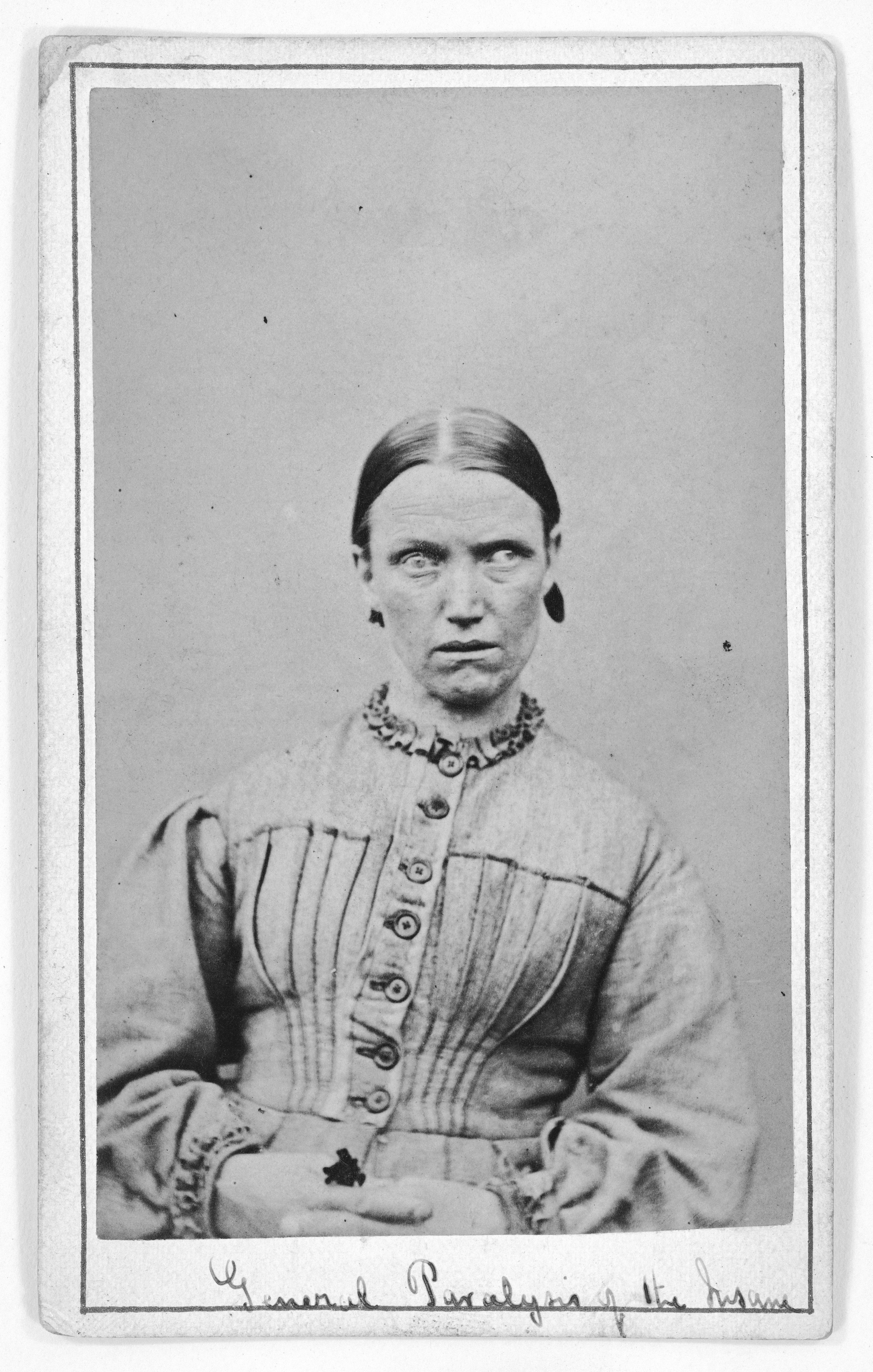 Patients at the West Riding Lunatic Asylum, Wakefield, Yorkshire; attributed to Sir James Crichton-Browne. Number 8, woman suffering from 'general paralysis'. Iconographic Collections Keywords: Psychiatry; James Crichton-Browne